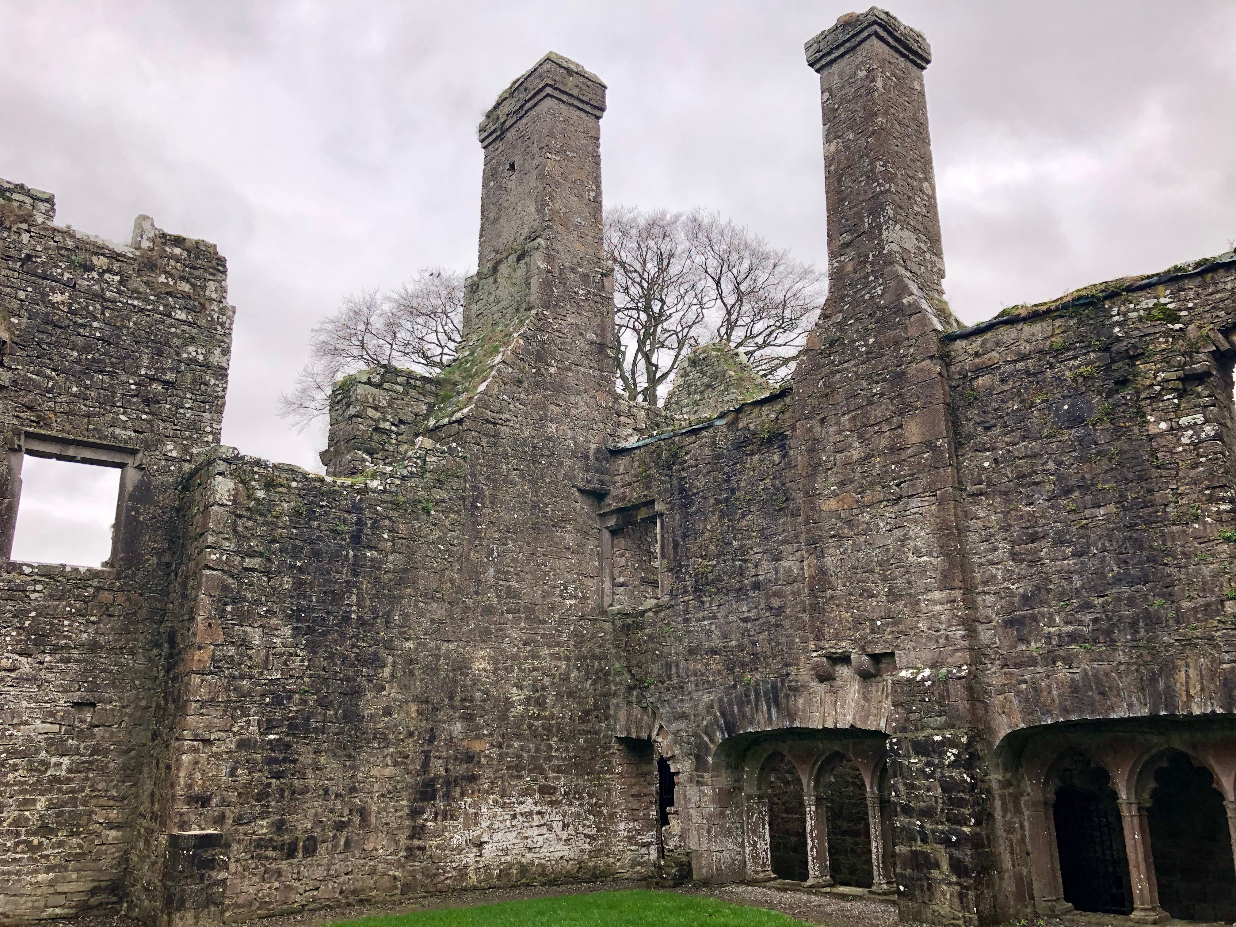 This is Mainistir Bheigtí, or Bective Abbey, a medieval Cistercian Monastery located at the small hamlet of Bective in County Meath, Éire. Founded in 1147AD, the abbey was substantially enlarged and rebuilt during the 15th Century, which is the date of construction of most of the current structure. The complex has portions dating back to the 13th Century; most notably the church, and a 16th Century tower that dominates the front of the structure. The most famous part of the abbey, however, is the well-preserved and ornate remaining sections of the old Cloister, which was used as a backdrop for several scenes of the 1995 film Braveheart. After the dissolution of the monasteries under King Henry VIII, the abbey and it’s lands were confiscated by the state, and purchased by Andrew Wyse in 1552. During the 17th Century, the old abbey was heavily modified and turned into a grand manor house, which later fell into ruin and decay. The ruins of the abbey were landmarked but in private hands until 2012, when they were purchased by the Irish Government and is one of the recorded National Monuments of Ireland, with access open to the public, whom can venture around the hauntingly beautiful ruins of the old abbey.